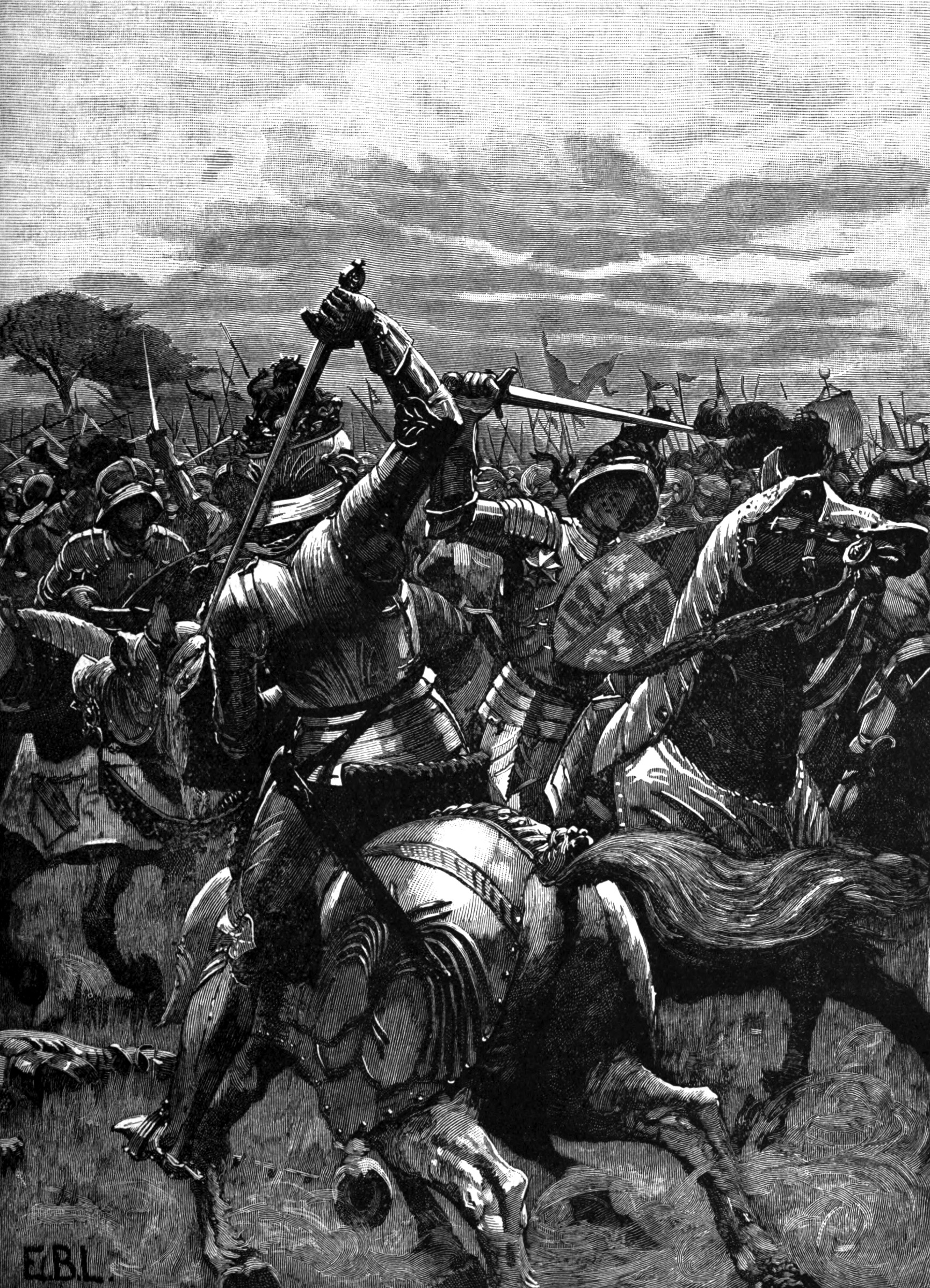 Richard III at the Battle of Bosworth Field